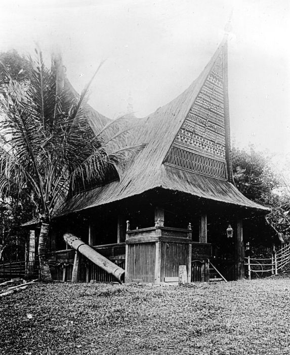 The house of a local ruler at Pakantan